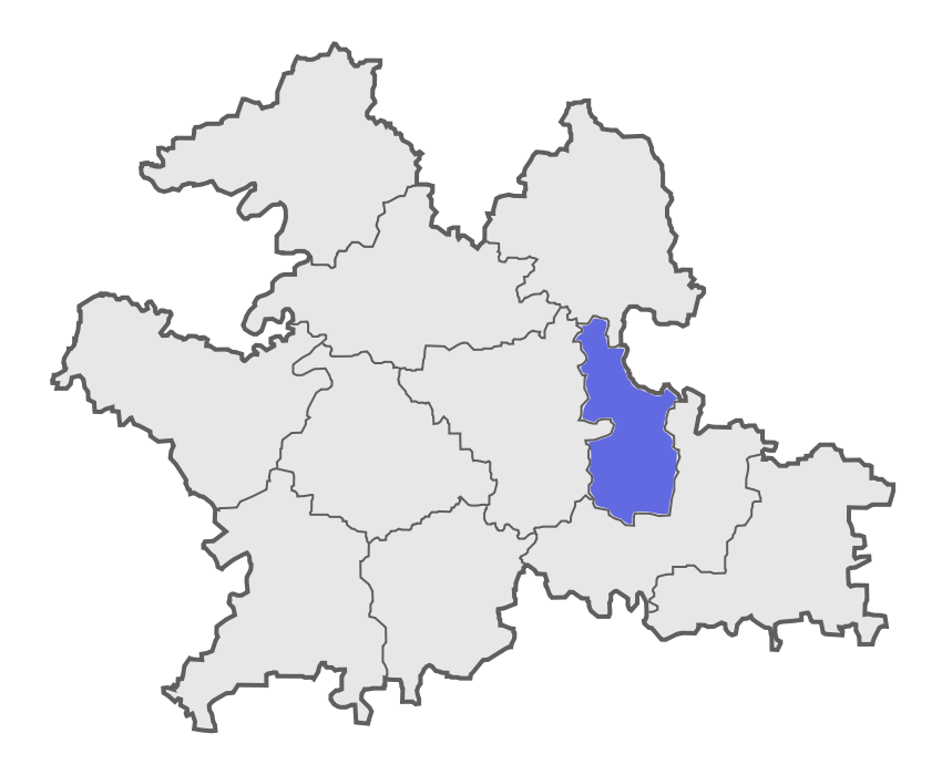 Locator map of North Solapur tehsil in Solapur district of Indian state of Maharashtra.